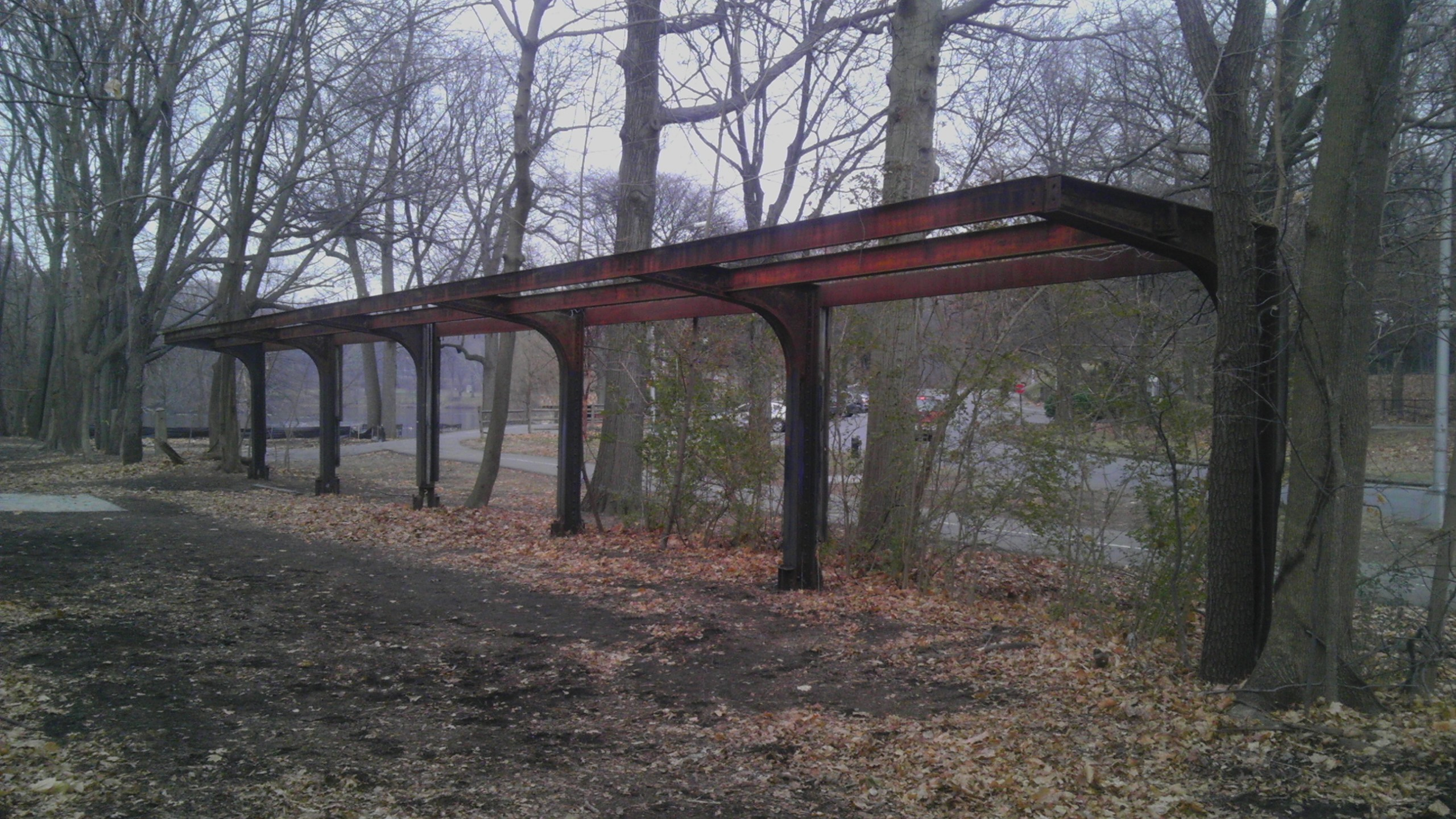 Looking northeast at steel skeletal remains of the former Van Cortlandt Park station on a cloudy autumn afternoon.